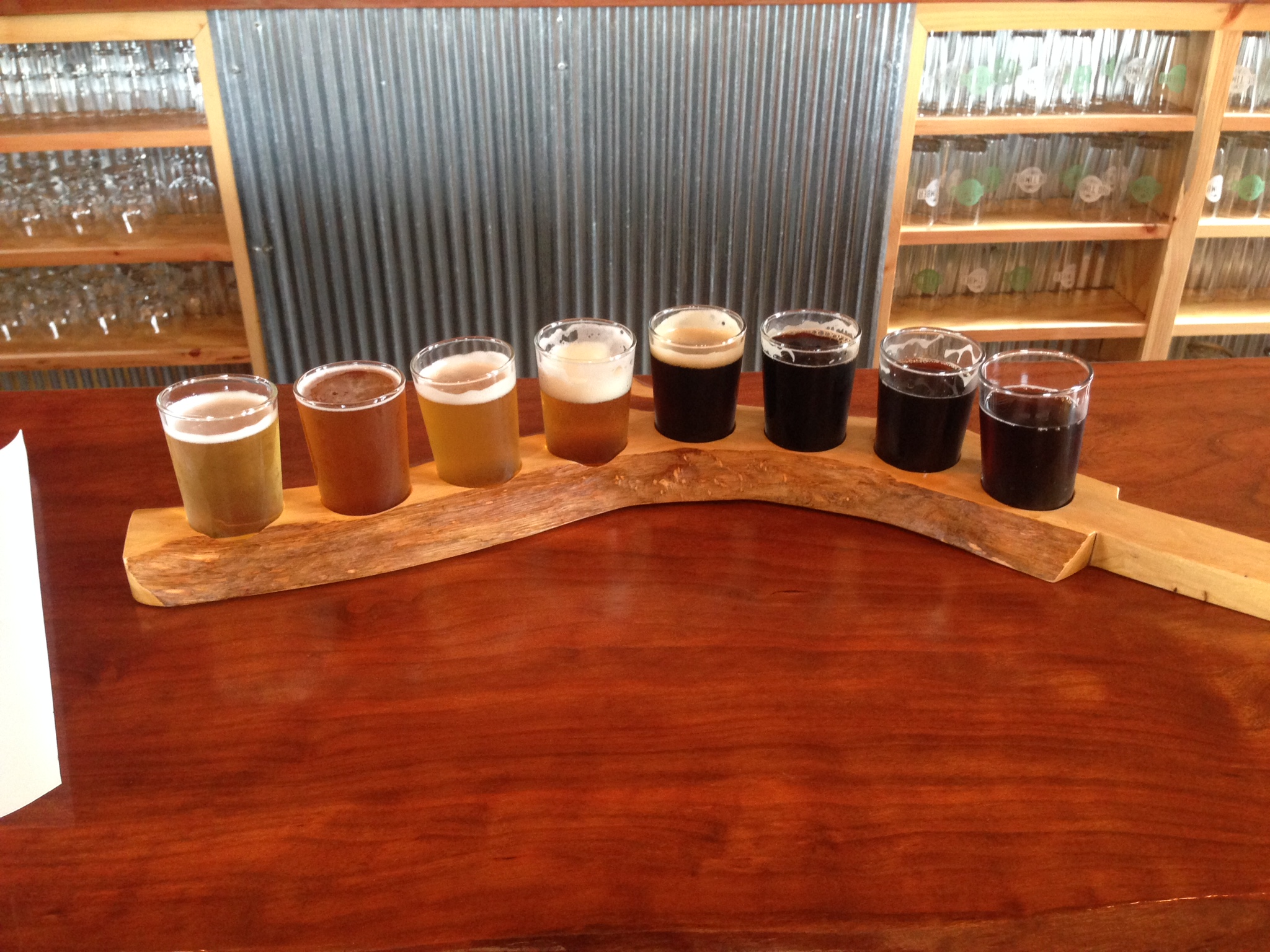 A flight of beer at Big Timber Brewing in Elkins, WV. 2015